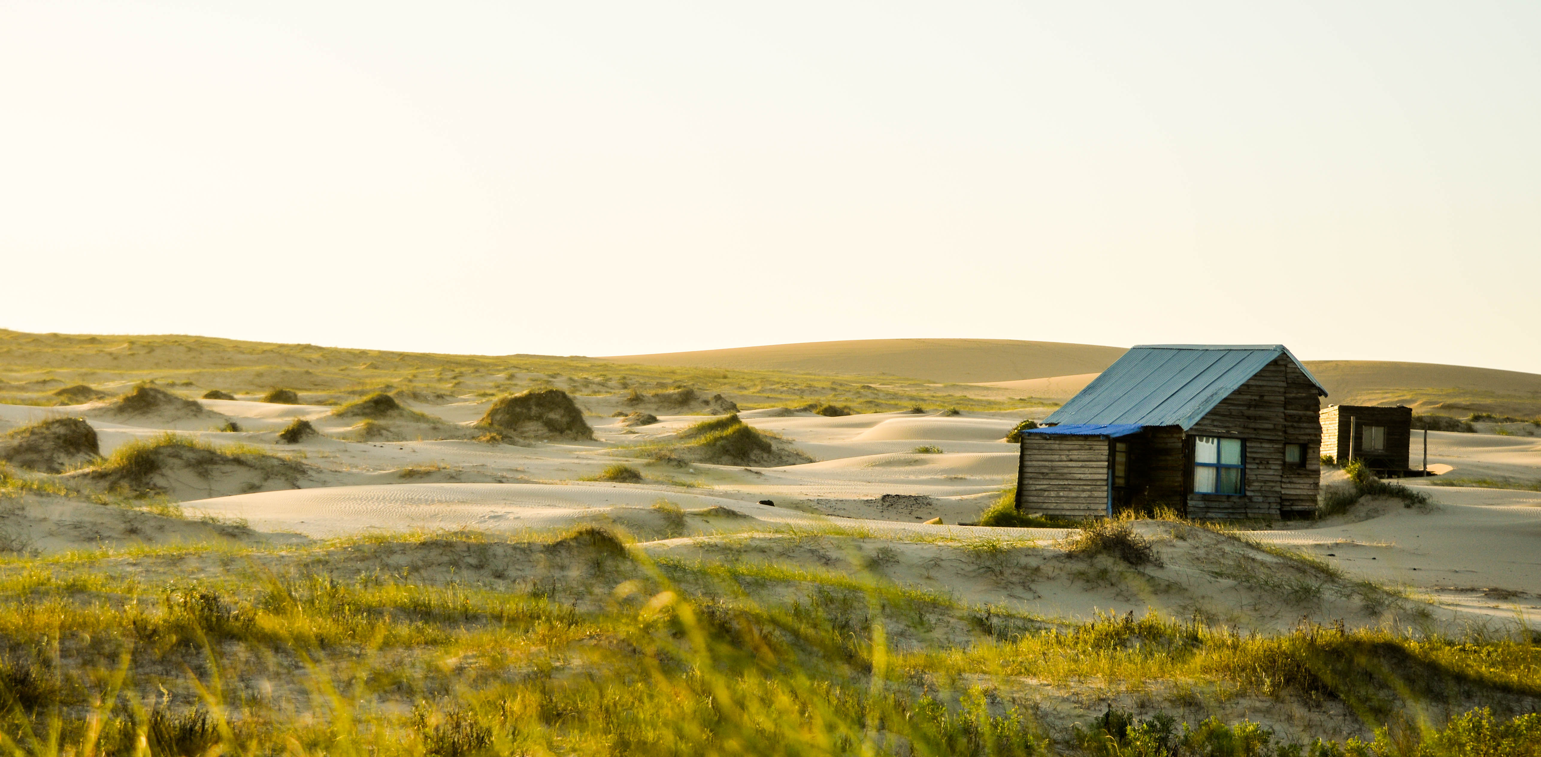 Ranch in the dunes in the north of Cabo Polonio, in Rocha, Uruguay